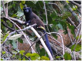 Tamarin